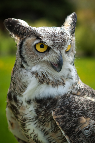 Great Horned Owl, Manitoba, Canada